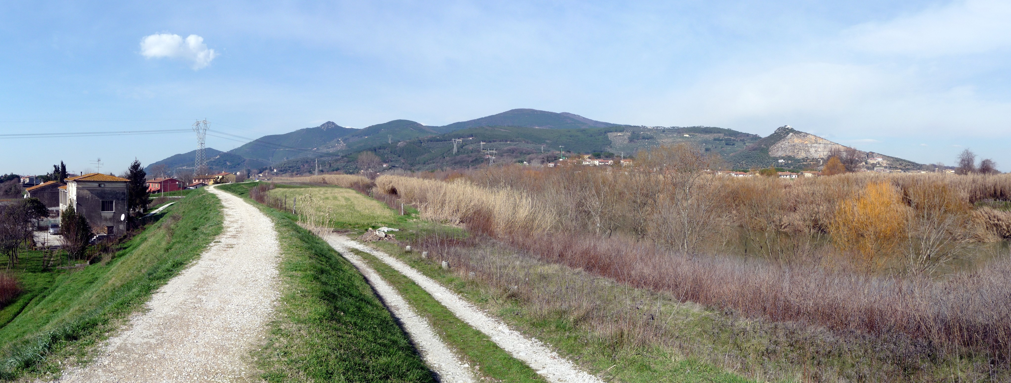 Cascina, Province Pisa, Tuscany, Italy - View of Arno river and Monti Pisani